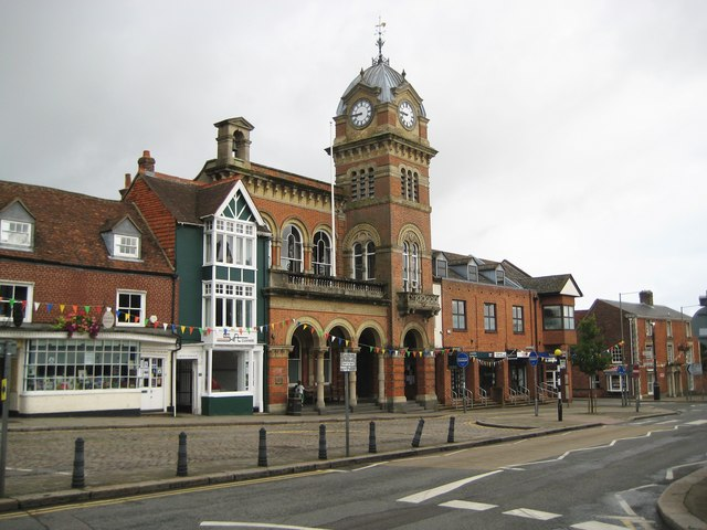 Built in 1870 in a Byzantine style the Town Hall still hosts the annual Hocktide or Tutti Day celebrations on the second Tuesday after Easter.